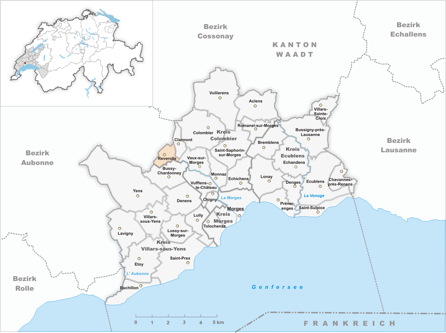 Municipality Reverolle